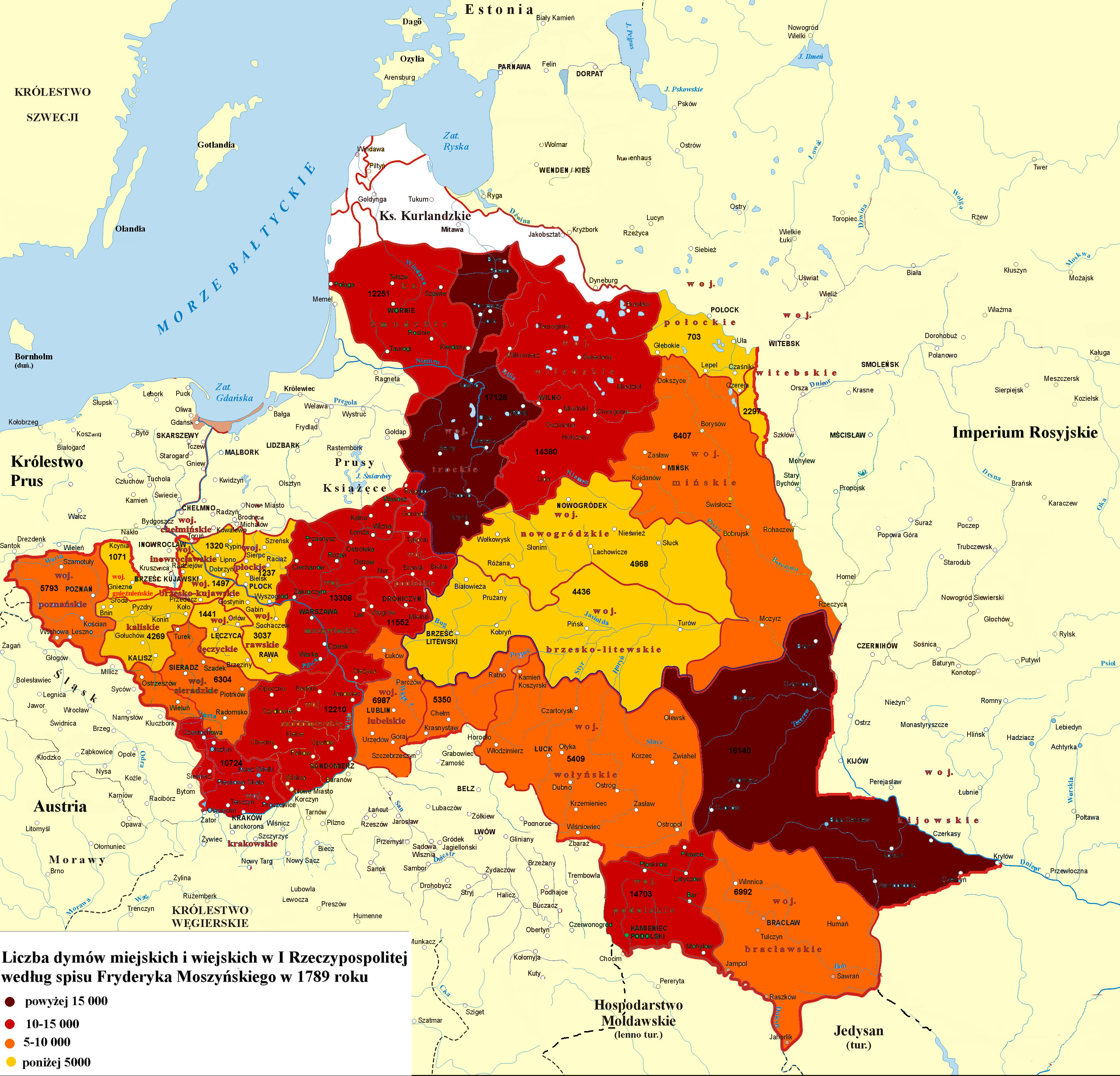 Number of households per Voivodeships of Polish-Lithuanian Commonwealth in 1789